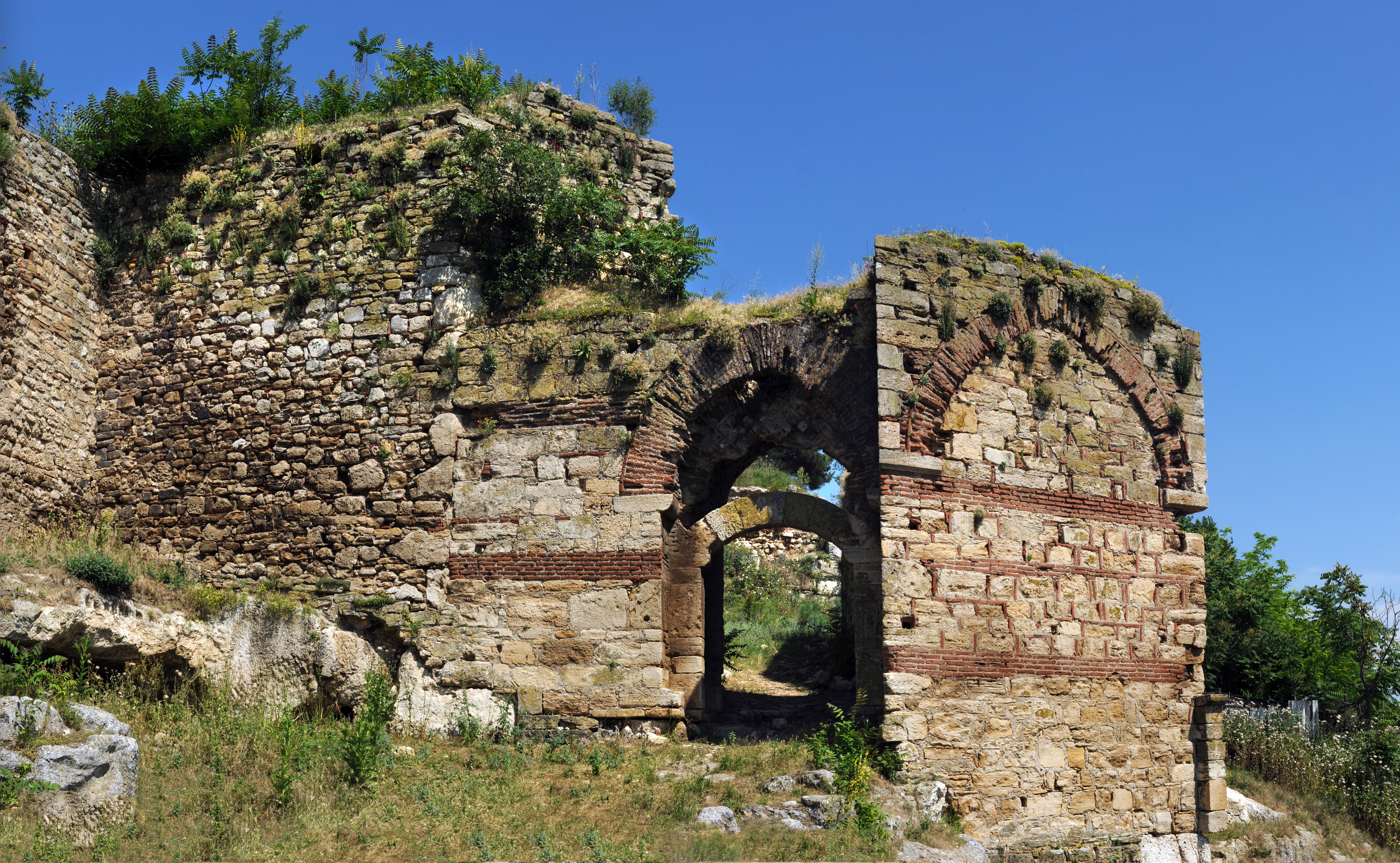 Gate at the castle Kale of Didymoteixo, Evros, Greece.